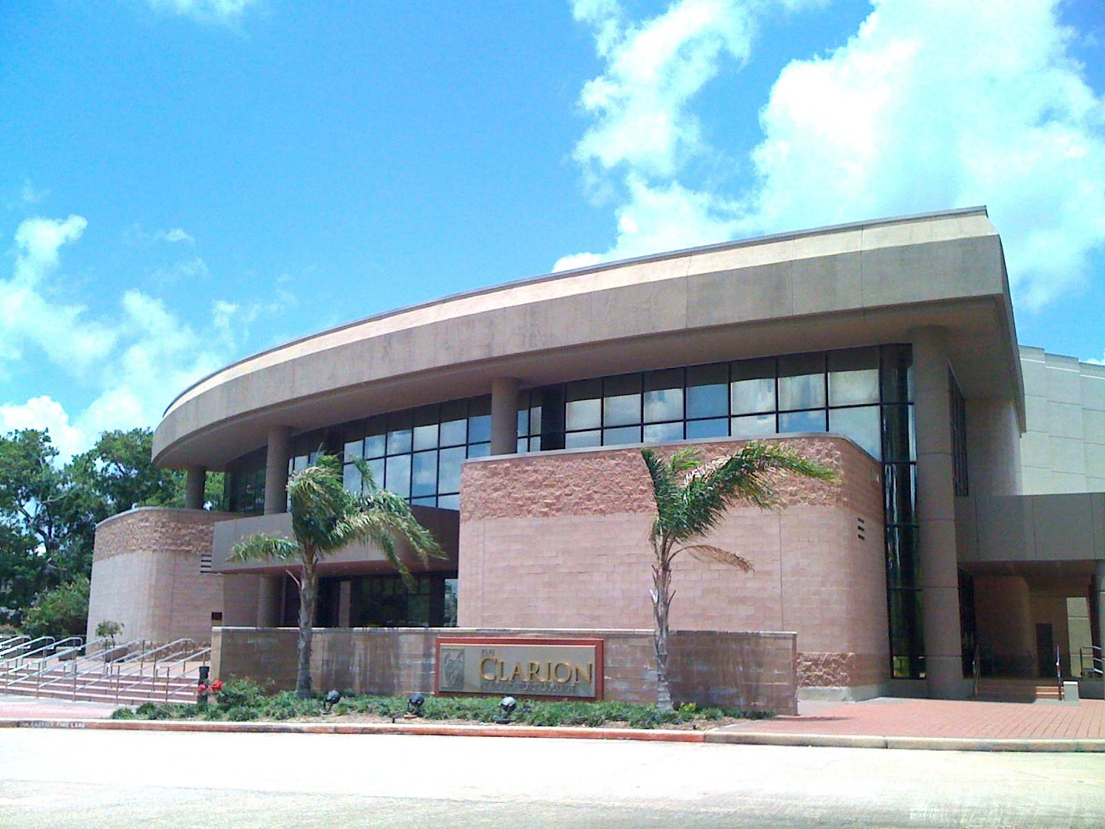 The Clarion on the campus of Brazosport College. It is a 600 seat performance hall.